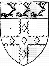 Arms of the John Mundy (mayor) family of Derbyshire and he was Mayor of London in 1522